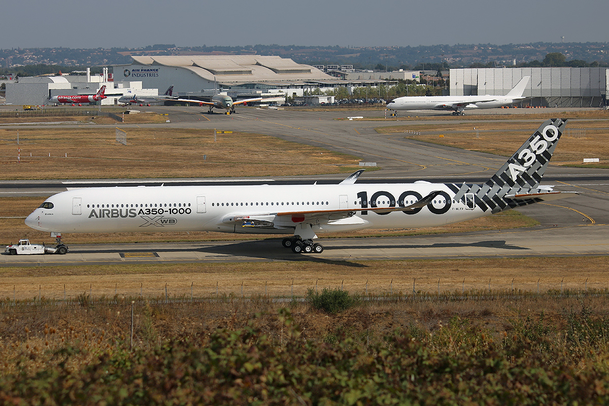 Airbus A350-1000 at Toulouse Blagnac